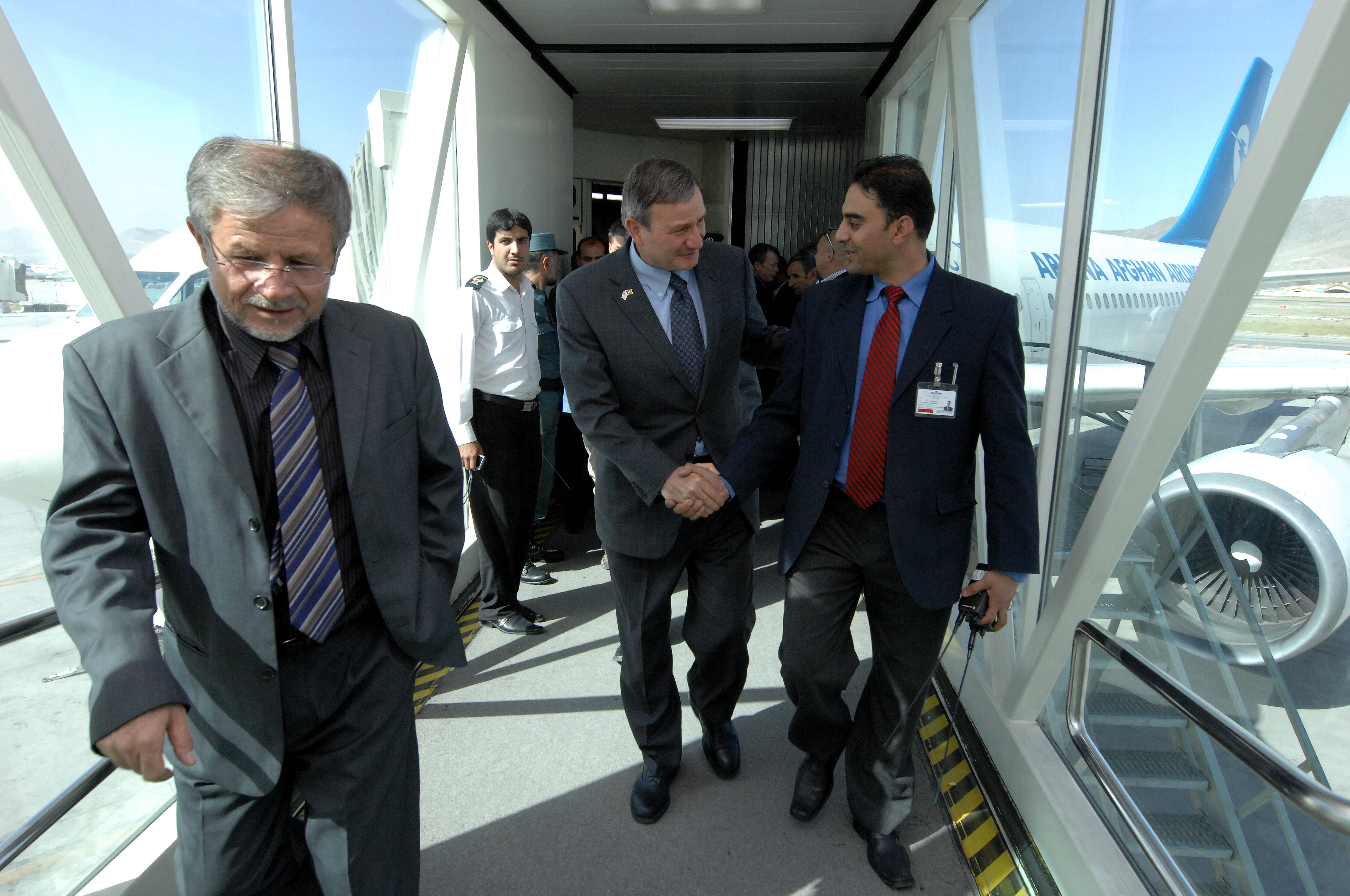 U.S. Ambassador to Afghanistan Karl Eikenberry's October 2010 visit to Kabul International Airport.[1]